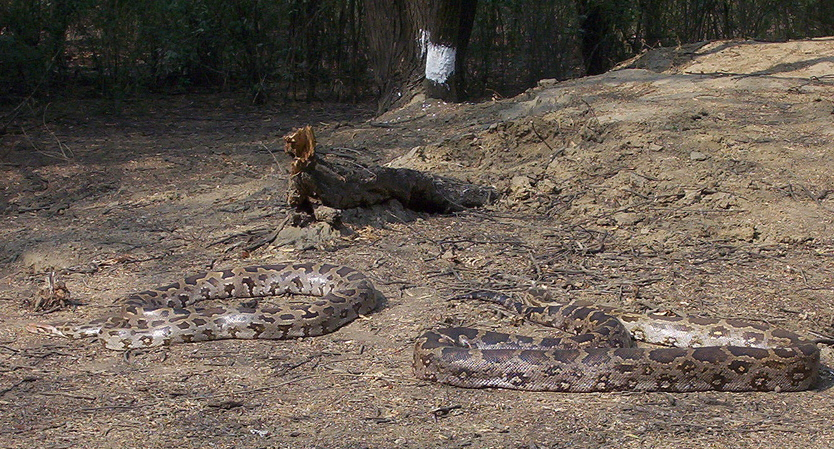 This picture was taken at Bharatpur Bird Sanctuary (Keoladeo Ghana National Park), India. Those Light Phase Asian Rock Pythons (Python molurus molurus) were basking in the sun during the afternoon.